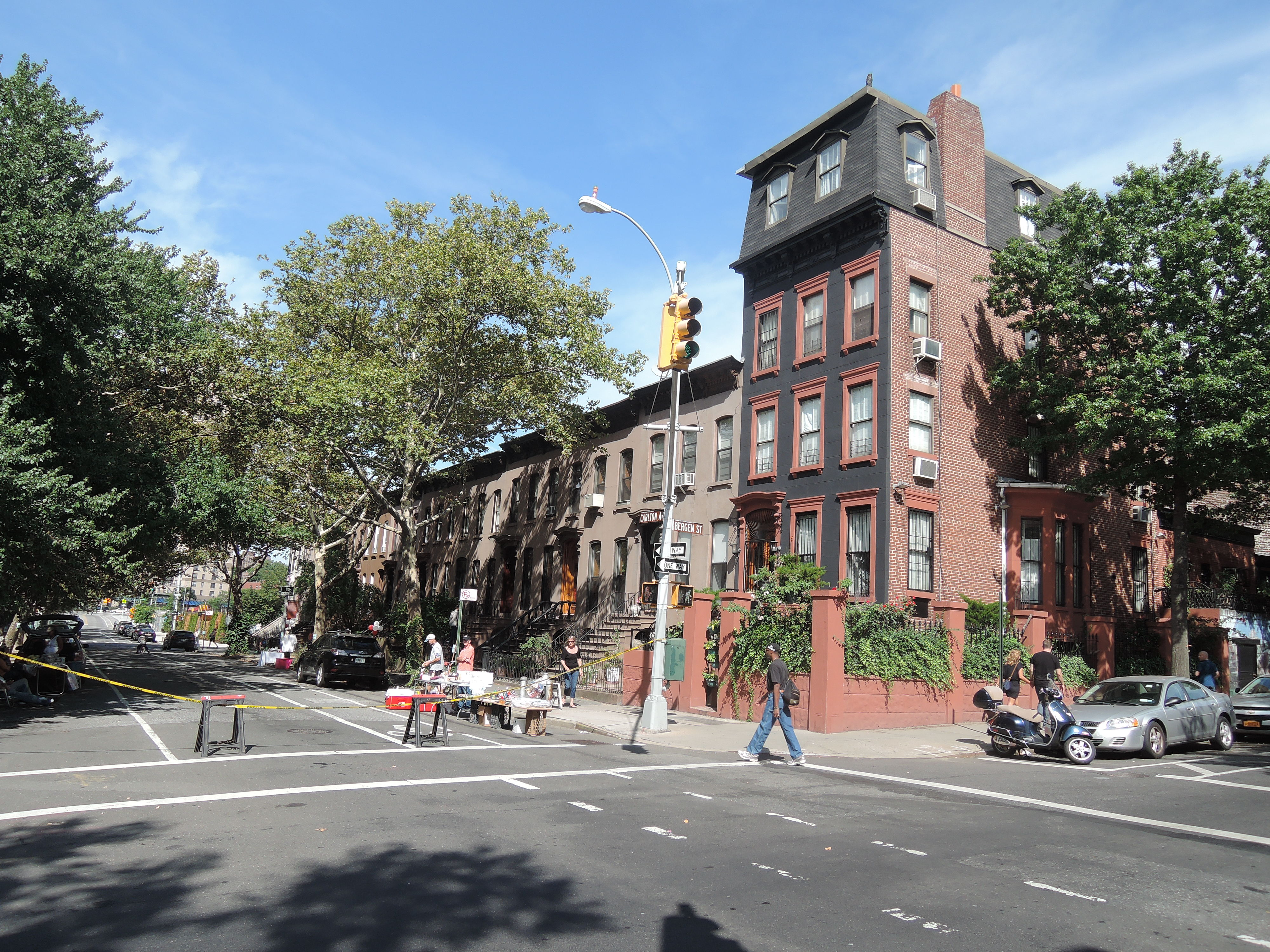 Looking northeast across Bergen Street and Carlton Avenue on a sunny afternoon.